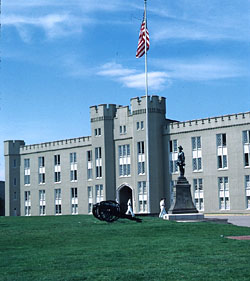 This image shows the main building of the Virginia Military Institute.